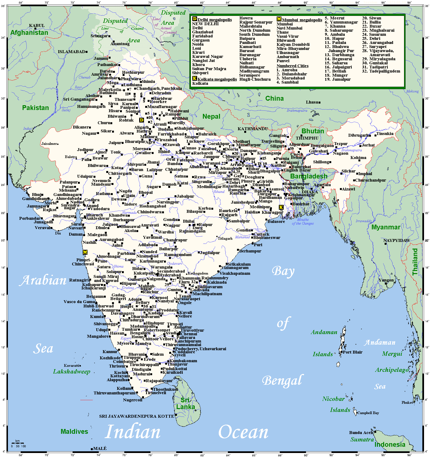 A map showing India's cities and main towns. I have endeavoured to include every city in India whose population is 100,000 or more. If you spot an oversight, leave a message on my talk page and I'll see if I can do anything about it.